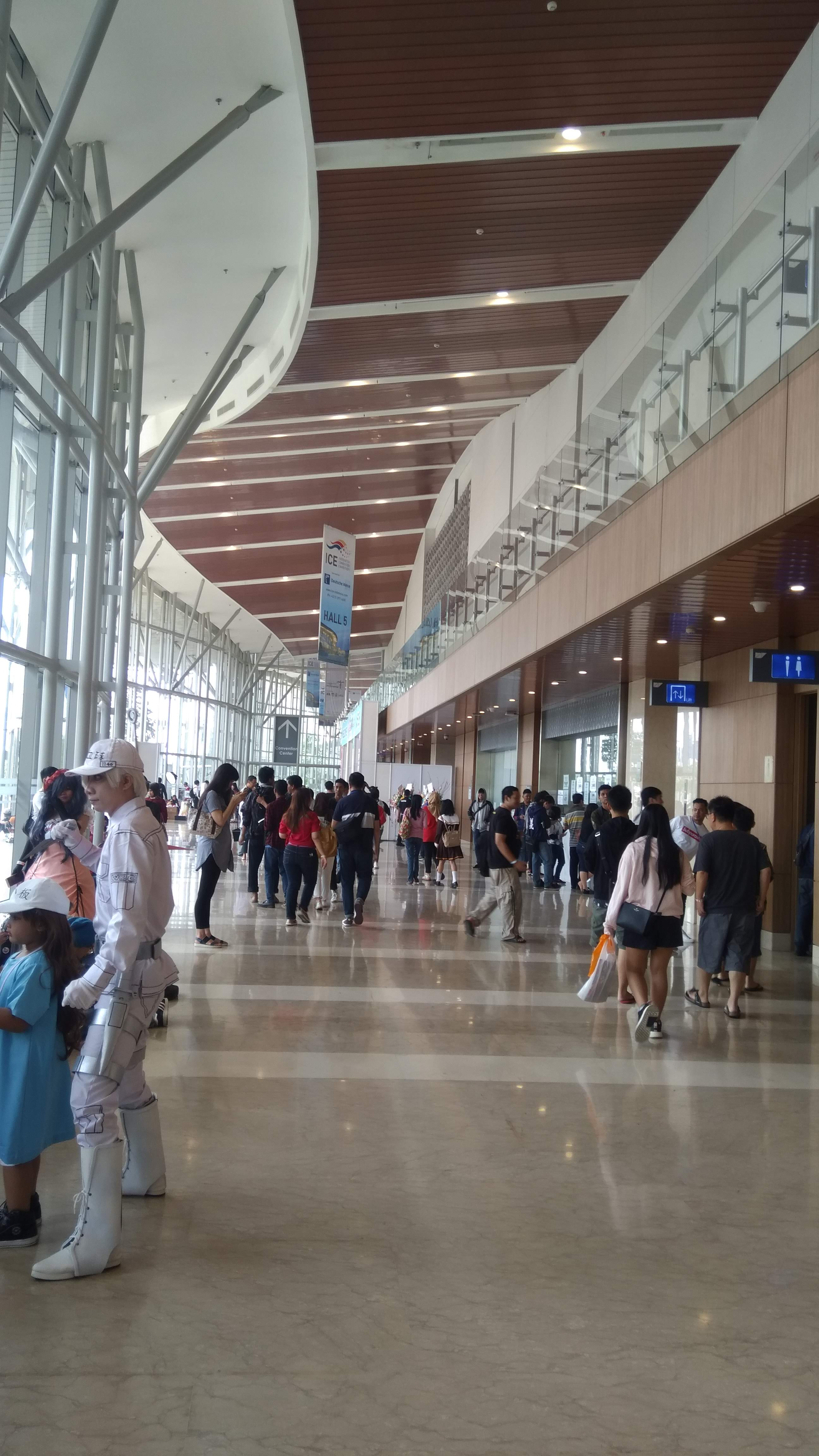 Interior of Indonesia Convention Exhibition convention centre during C3AFA-JKT 2018